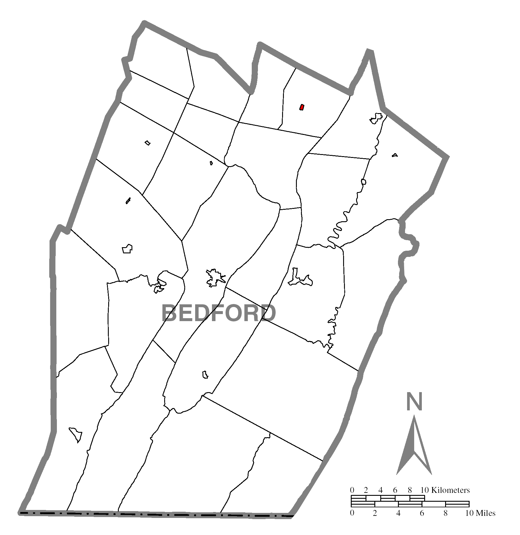 A map of Bedford County showing Woodbury, Pennsylvania (alternate) highlighted on the map.